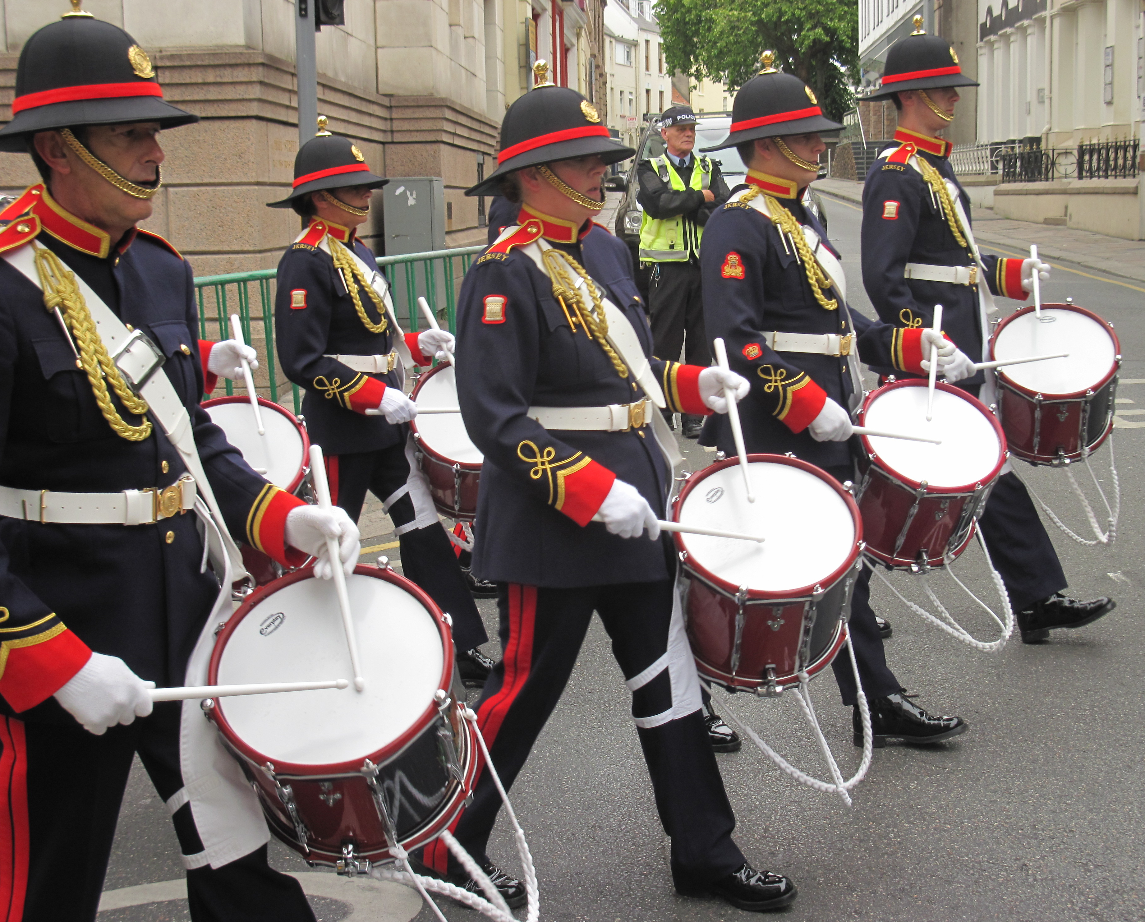 Jersey Town Criterium bicycle races, Saint Helier, Jersey